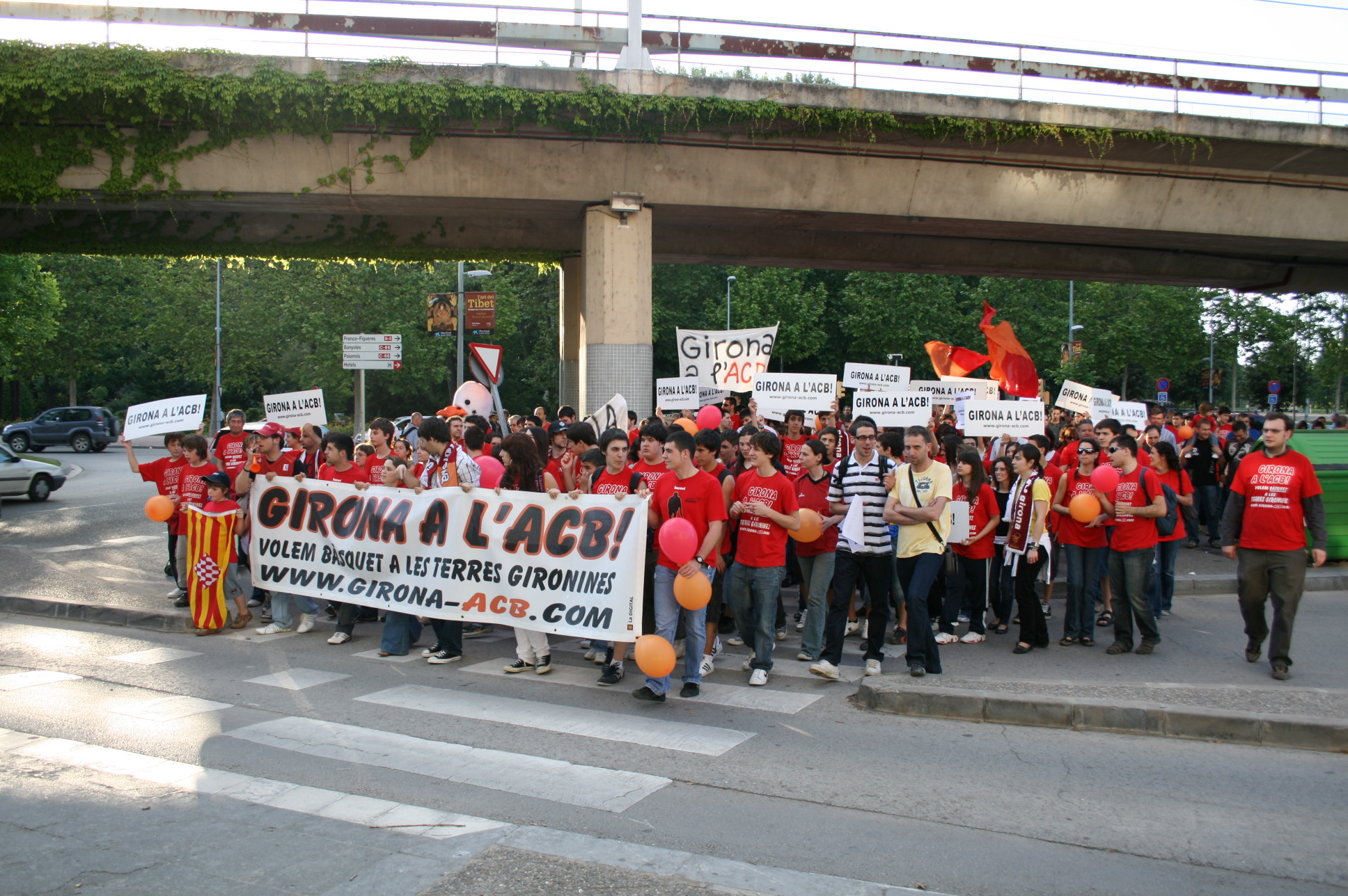 Photo of the Girona a l'ACB demonstration.